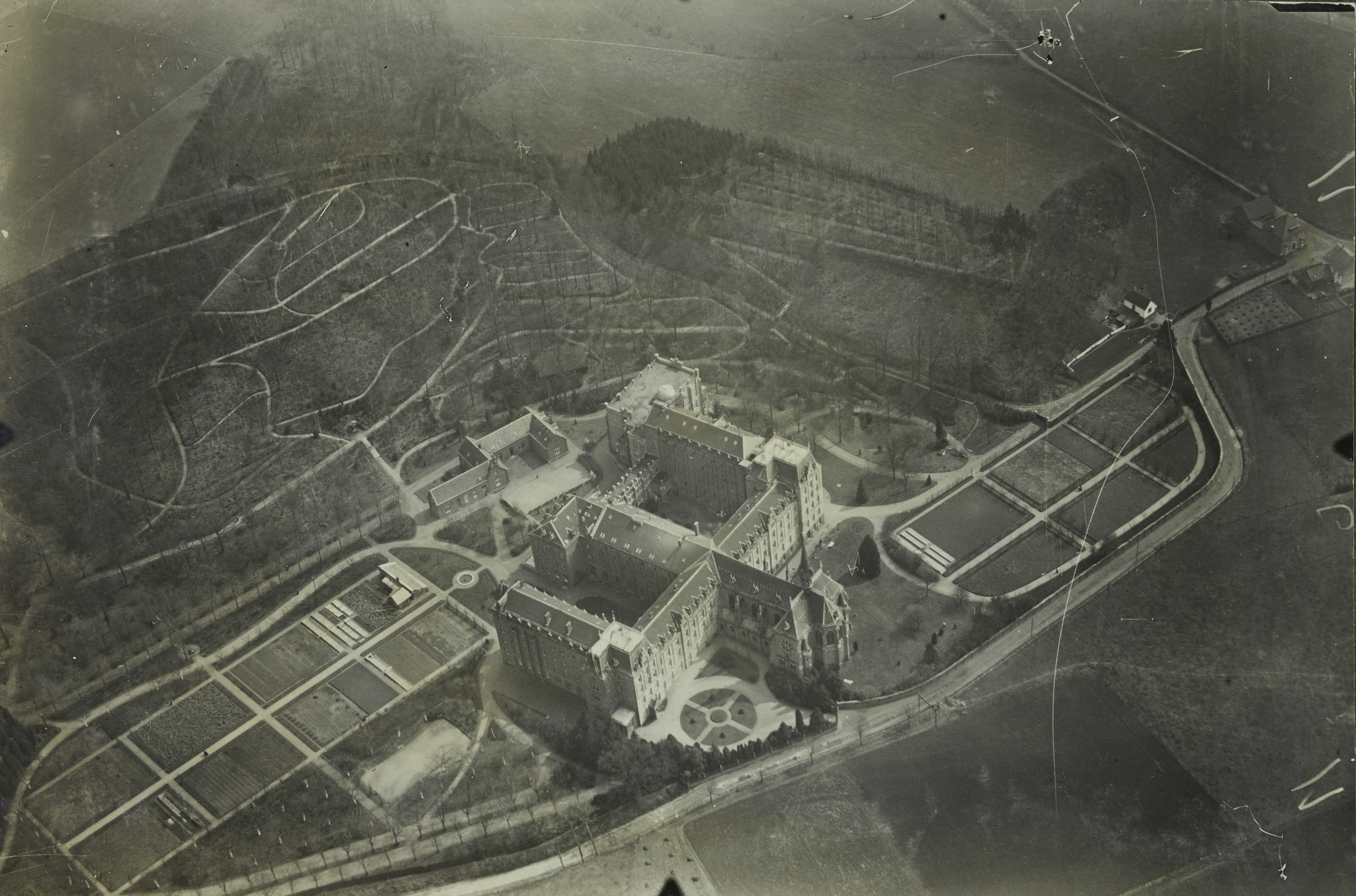 Aerial photograph of Valkenburg, The Netherlands.